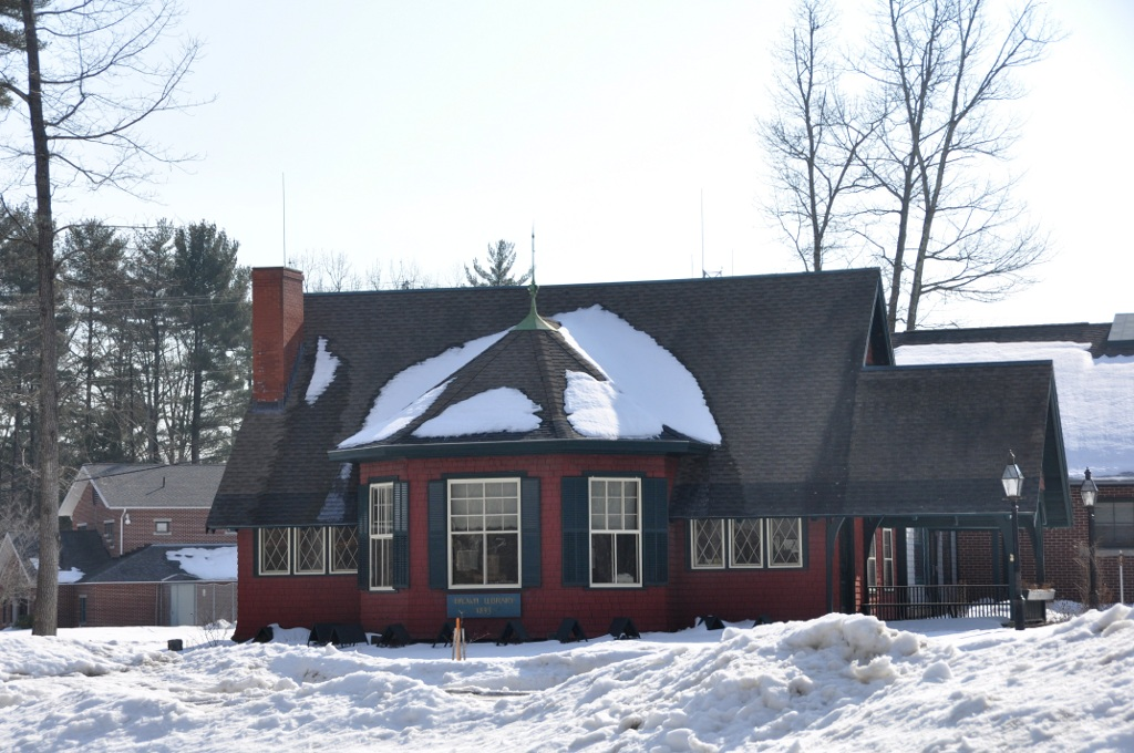 The Brown Memorial Library. Currently houses the Seabrook Historical Society. Seabrook, New Hampshire.